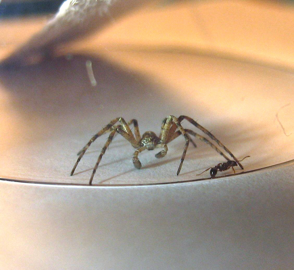 Male philodromus spec[1]. Location: Vienna, Austria